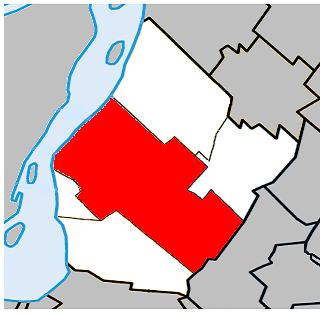 Location of Longueuil, Quebec (boroughs outlined) within the Urban Agglomeration of Longueuil.